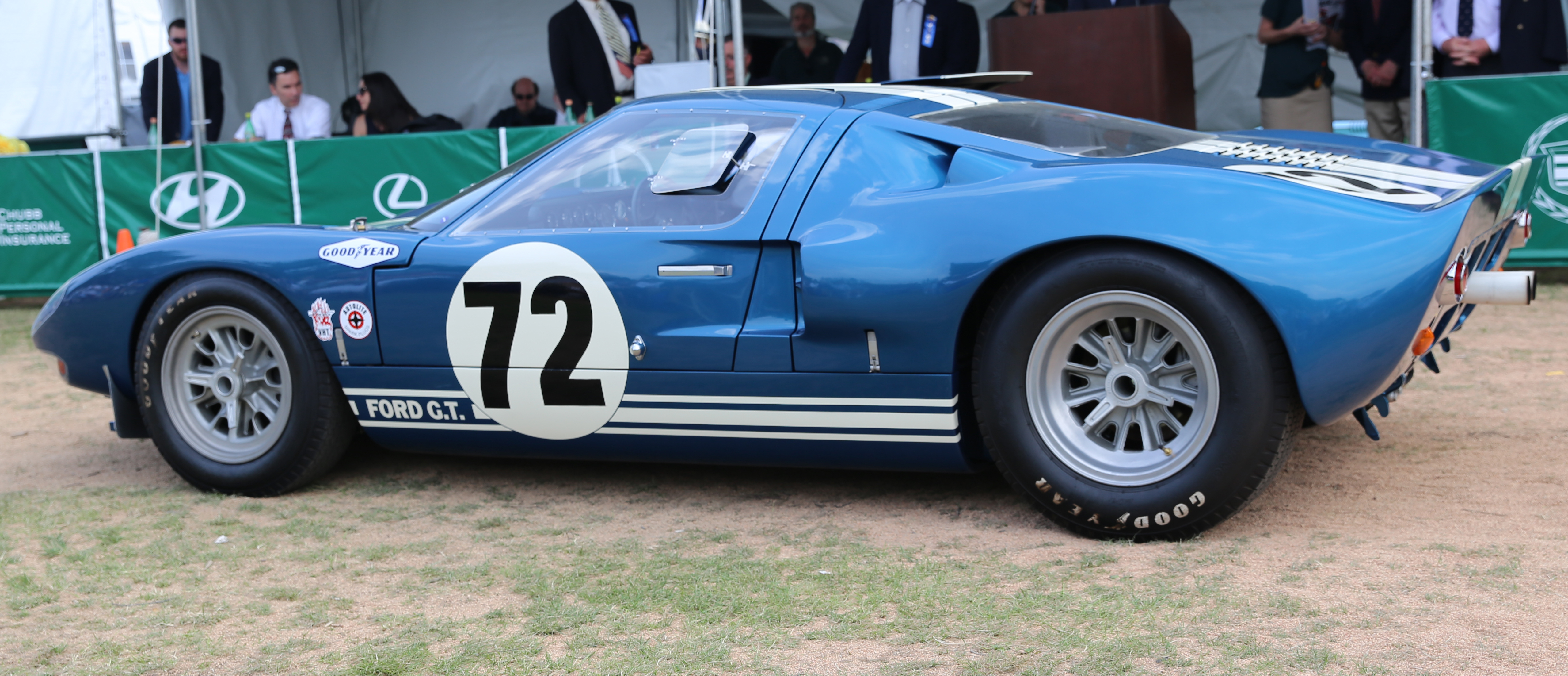 1964 Ford GT40 prototype at the 2013 Greenwich Concours d'Elegance. This is the fourth prototype (chassis number GT 104) built and the first with a lightweight chassis. 255 ci (4.2L) Indy spec engine, Colotti four-speed manual. This car finished third at Daytona in 1965, and has been restored to that livery. Recently sold for $4million.